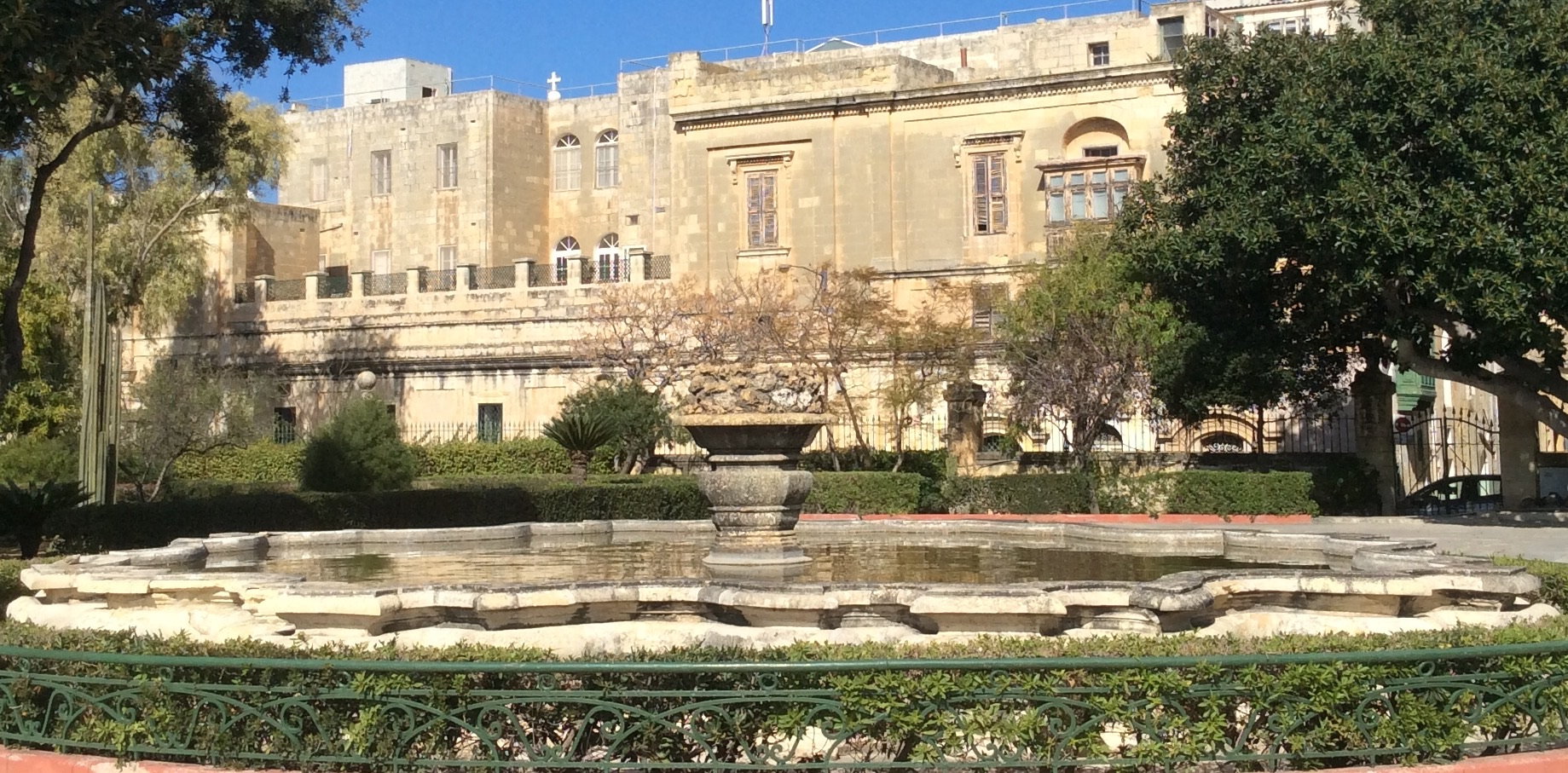 Argotti Gardens